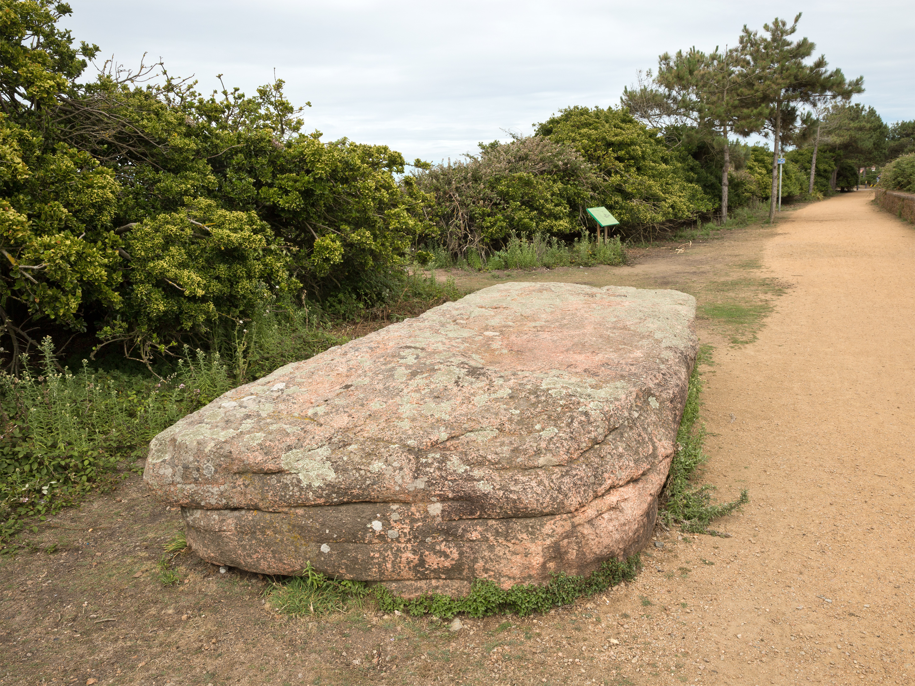 Island of Jersey, La Table des MarthesEsperanto: Insulo Jersey, La Table des Marthes